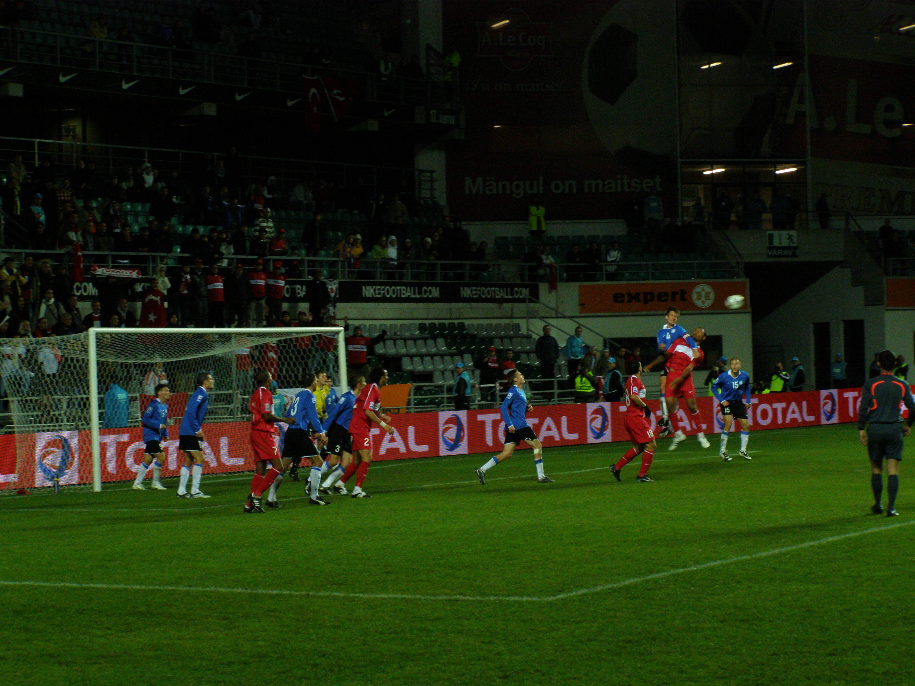 Estonia vs Turkey (0:0) at 15th October 2008. A. Le Coq Arena, Tallinn, Estonia.